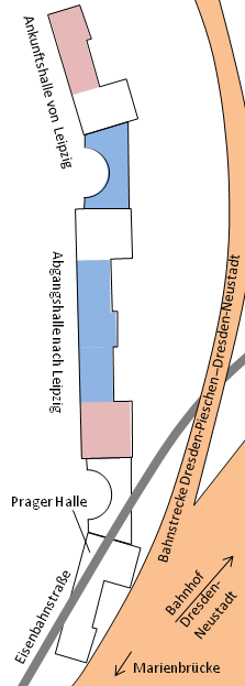 Building parts of station "Leipziger Bahnhof" in Dresden that are still there.